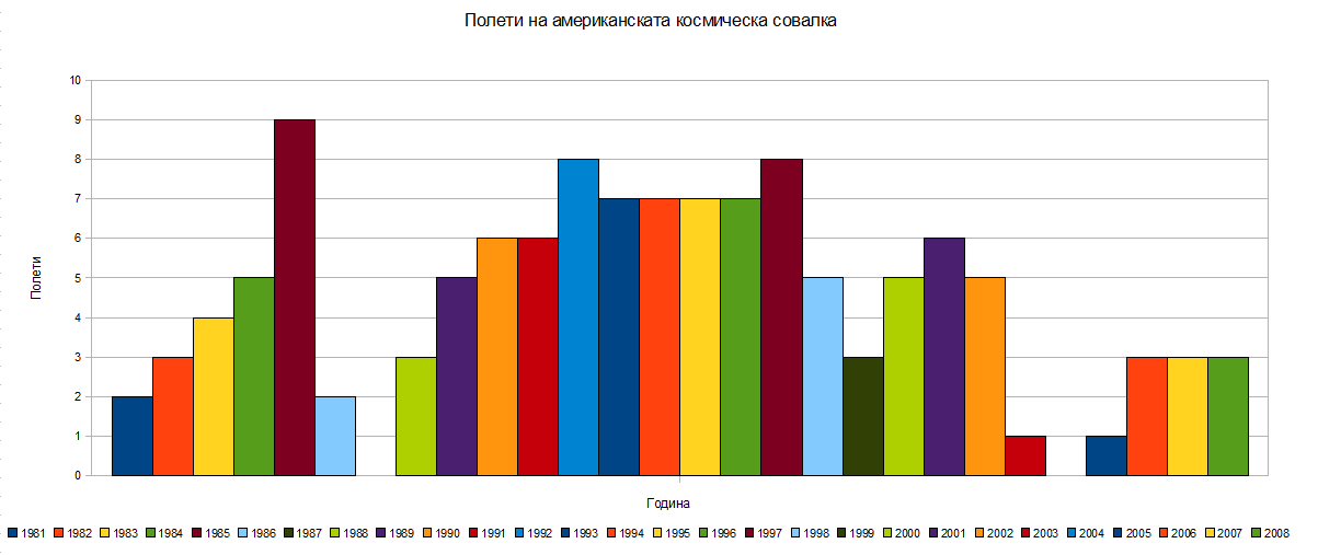 Statistic of the US space shuttle flights by year in Bulgarian.